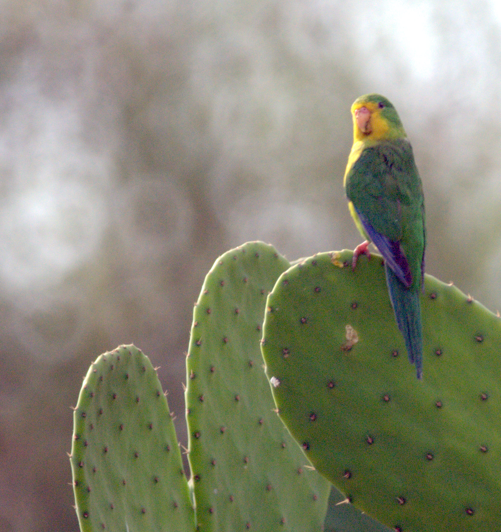 A feral male of mountain parakeet perched on a nopal near of San Bartolo, province of Huarochiri, Lima, Peru. It belongs to Psilopsiagon aurifrons aurifrons subspecies.